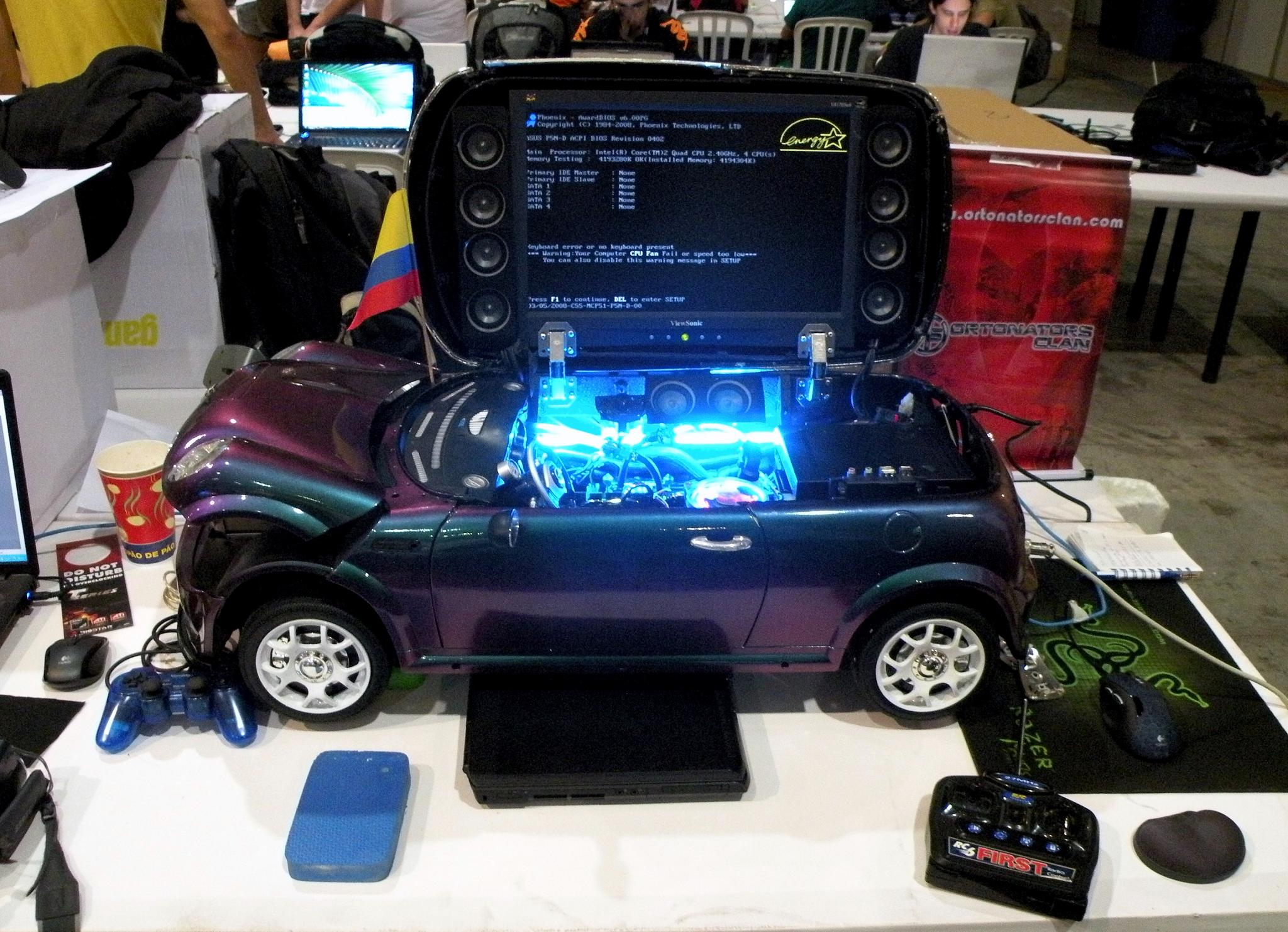 Casemod at Campus Party Brasil 2009